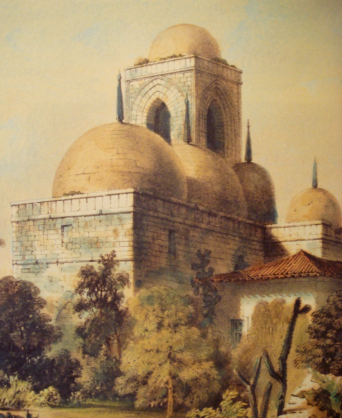 San Giovanni degli Eremiti (St. John of the Hermits), Palermo, Sicily. This is a cropped and tinted image of plate VI from: Knight, Henry Gally (1840). Saracenic and Norman remains, to illustrate the Normans in Sicily. London: Murray. The lithograph was printed by Charles Joseph Hullmandel. A scan of the original lithograph is available from MIT Dome. The book of lithographs were intended to supplement Knight's book "The Normans in Sicily" which had been published by Murray two years earlier. A scan of the book is available from Internet Archive